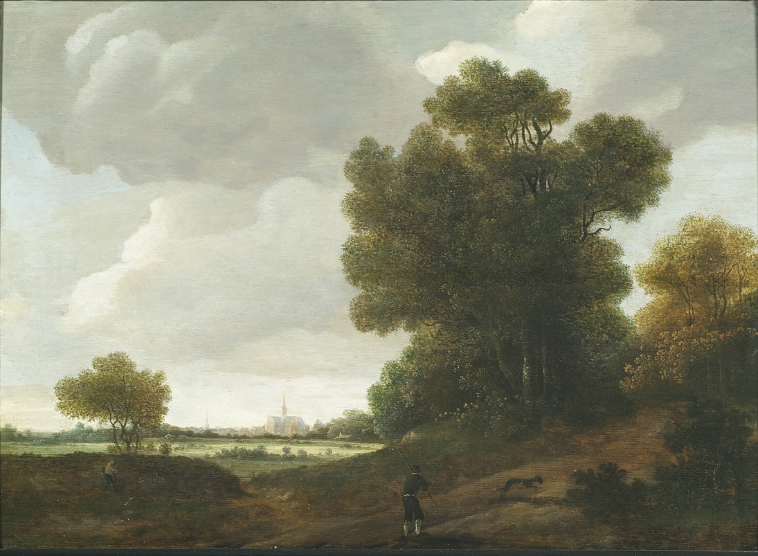 Landscape with figure and Haarlem Bavo church in background